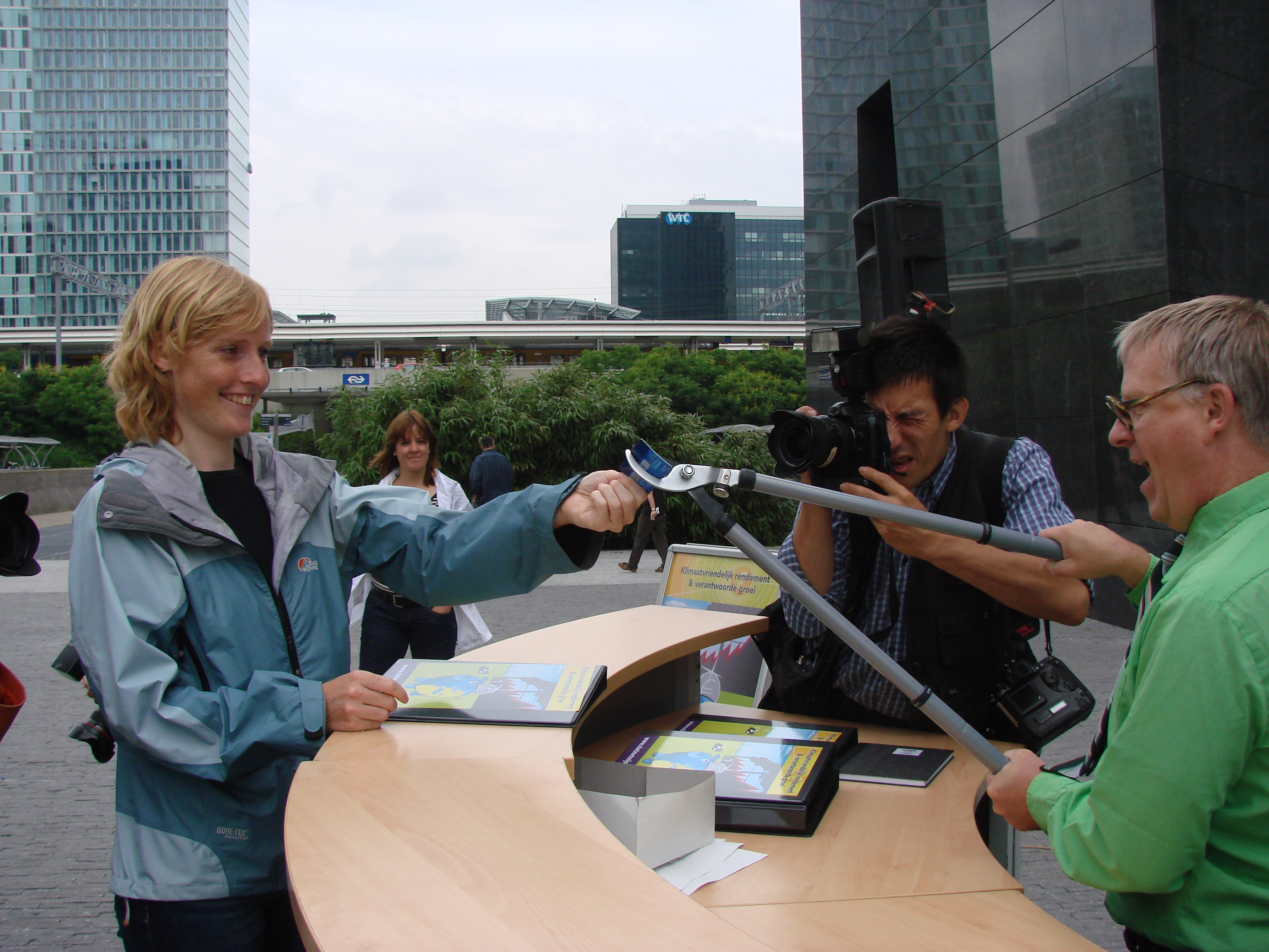 A bank card being cut for the project 'Niet met mijn geld'.